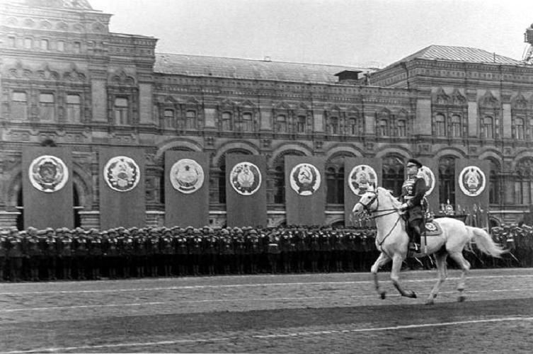 中文（香港）: Marshal Zhukov at 1945 Moscow Victory Parade